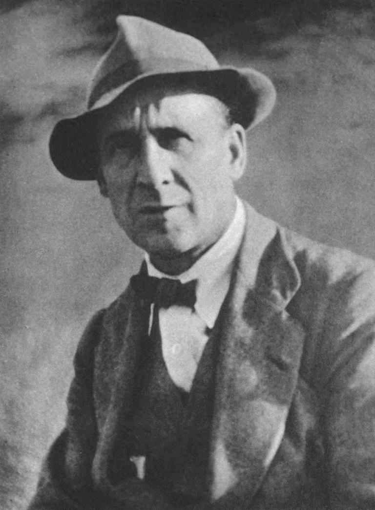 John Duncan Fergusson